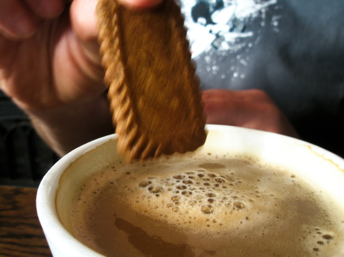 Biscuit about to be plunged into coffee